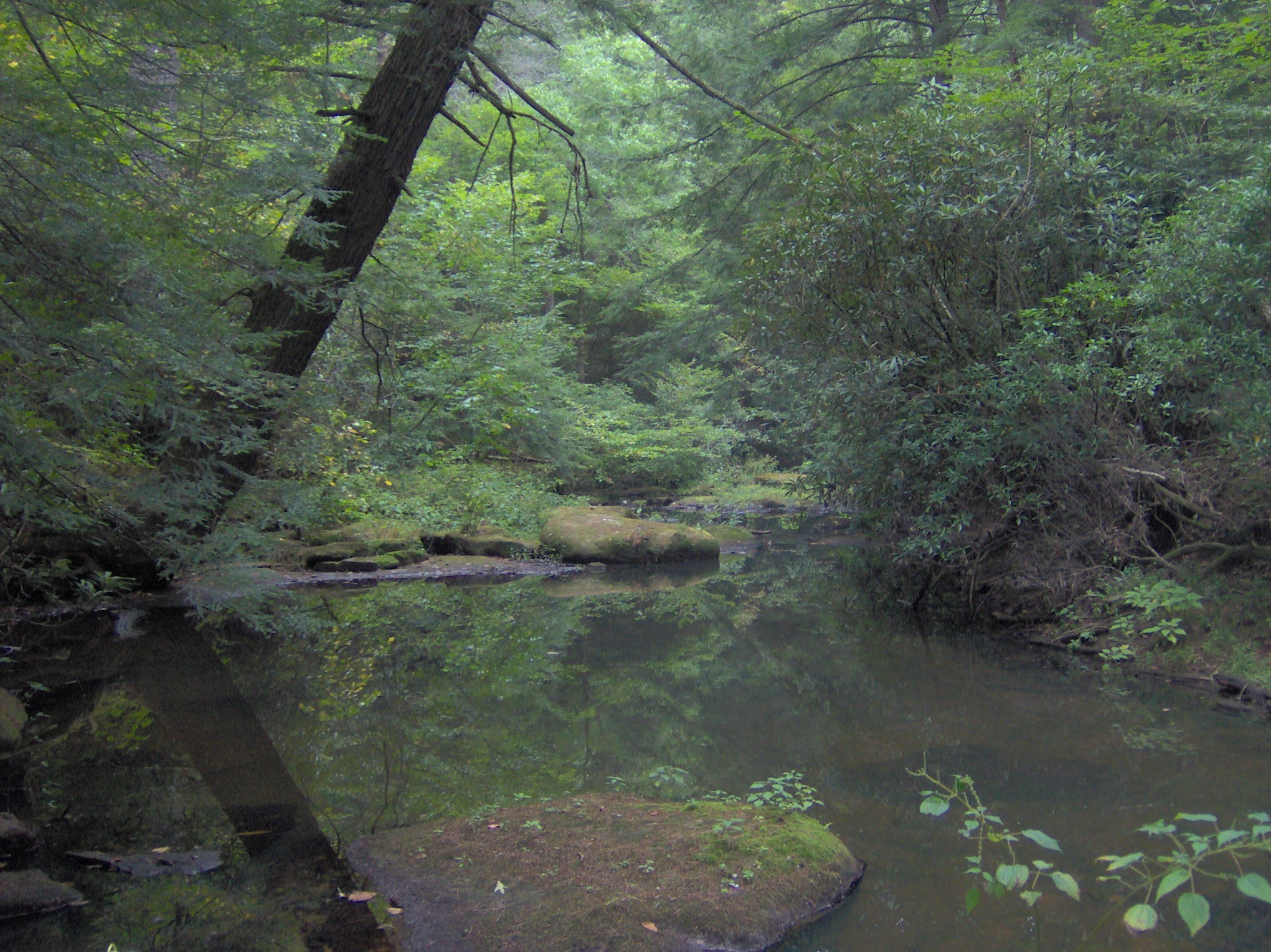 Byrd Creek, downstream from the dam at Cumberland Mountain State Park in Cumberland County, Tennessee, in the southeastern United States. This view is located just off the Byrd Creek Trail.